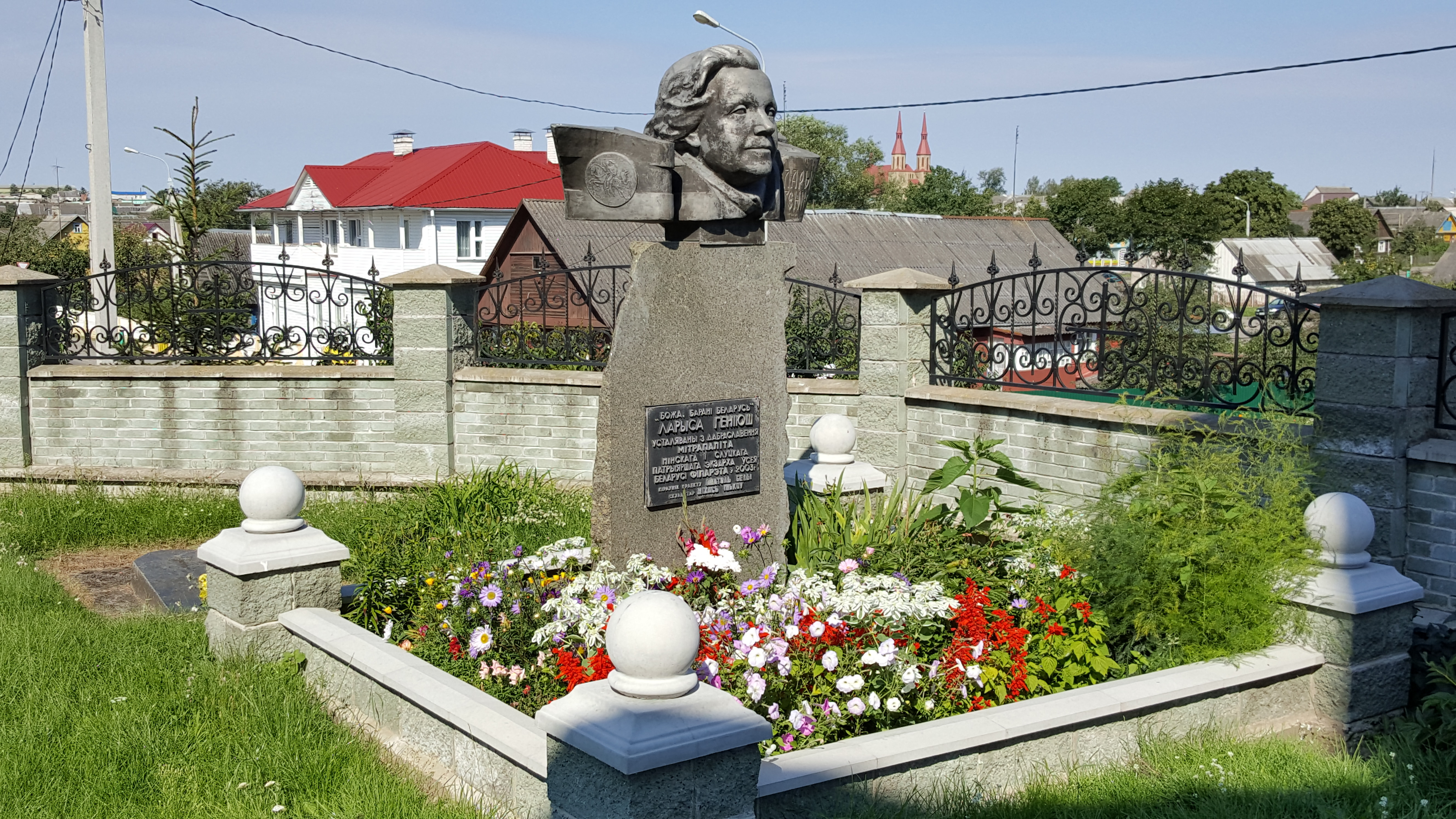 Monument of Larysa Hienijuš in Zel'va